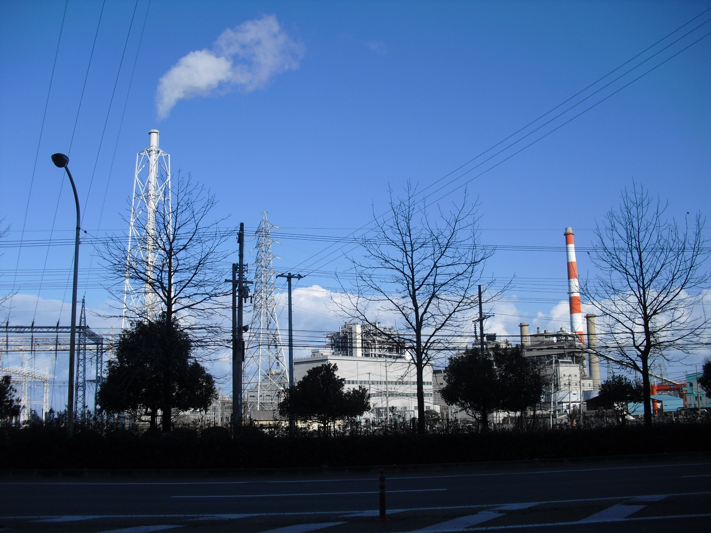 Sumitomo Metal Mining